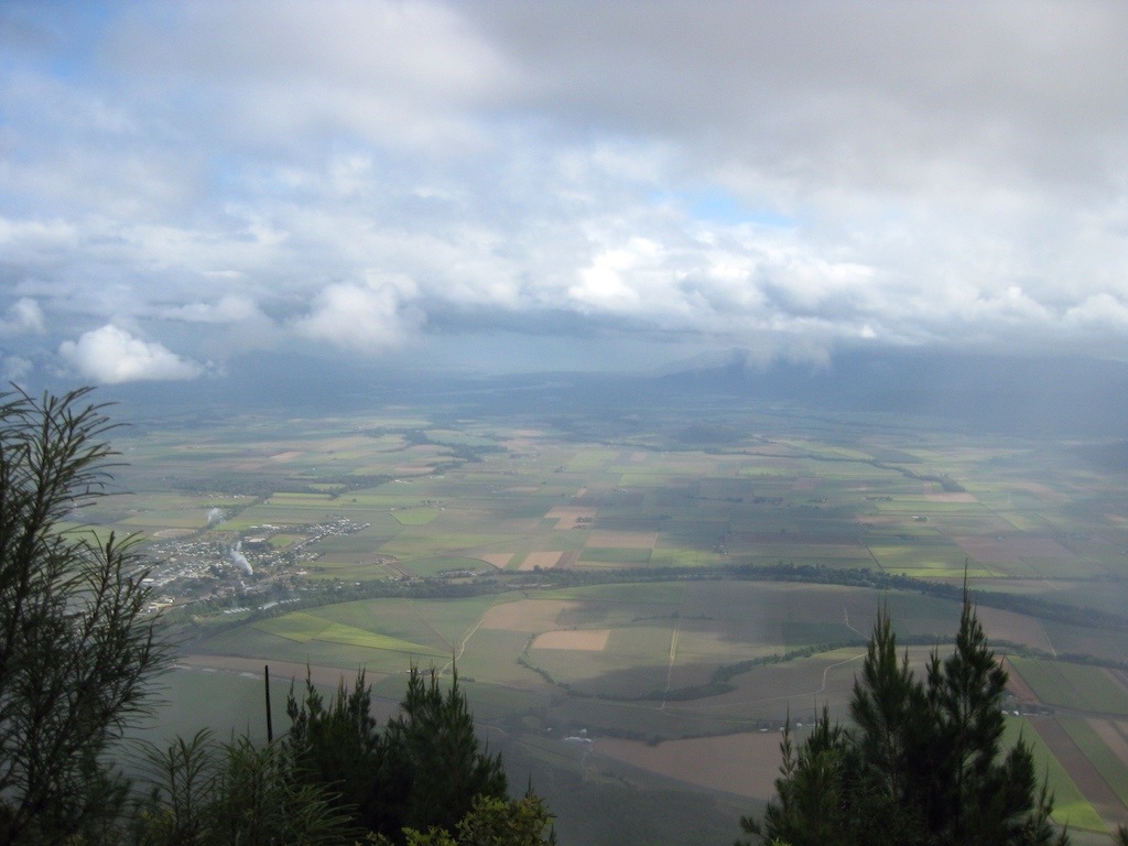 View from the summit of Walshs Pyramid, looking over Gordonvale towards the Cairns City, Australia